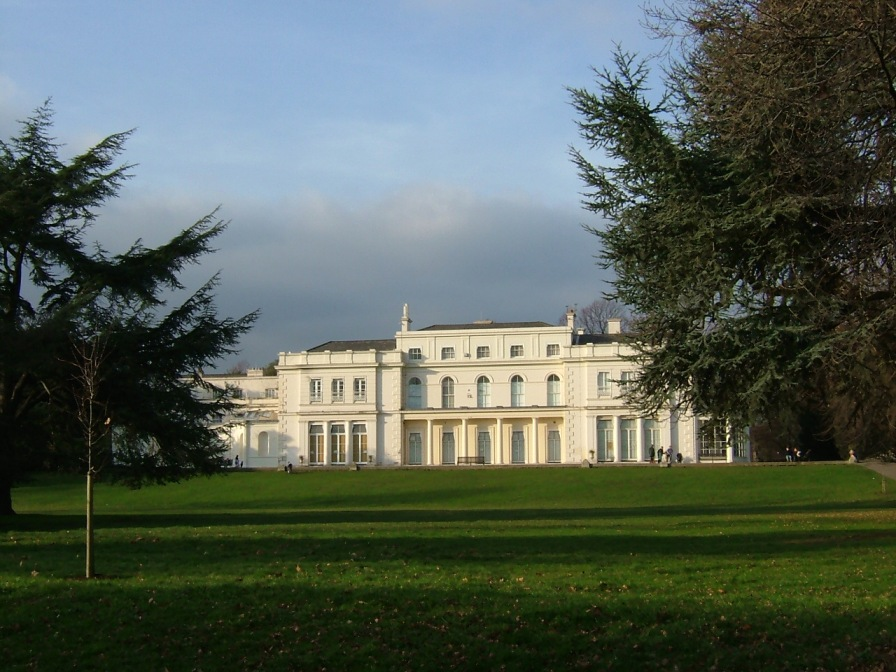 Photograph taken by me for use in Wikipedia